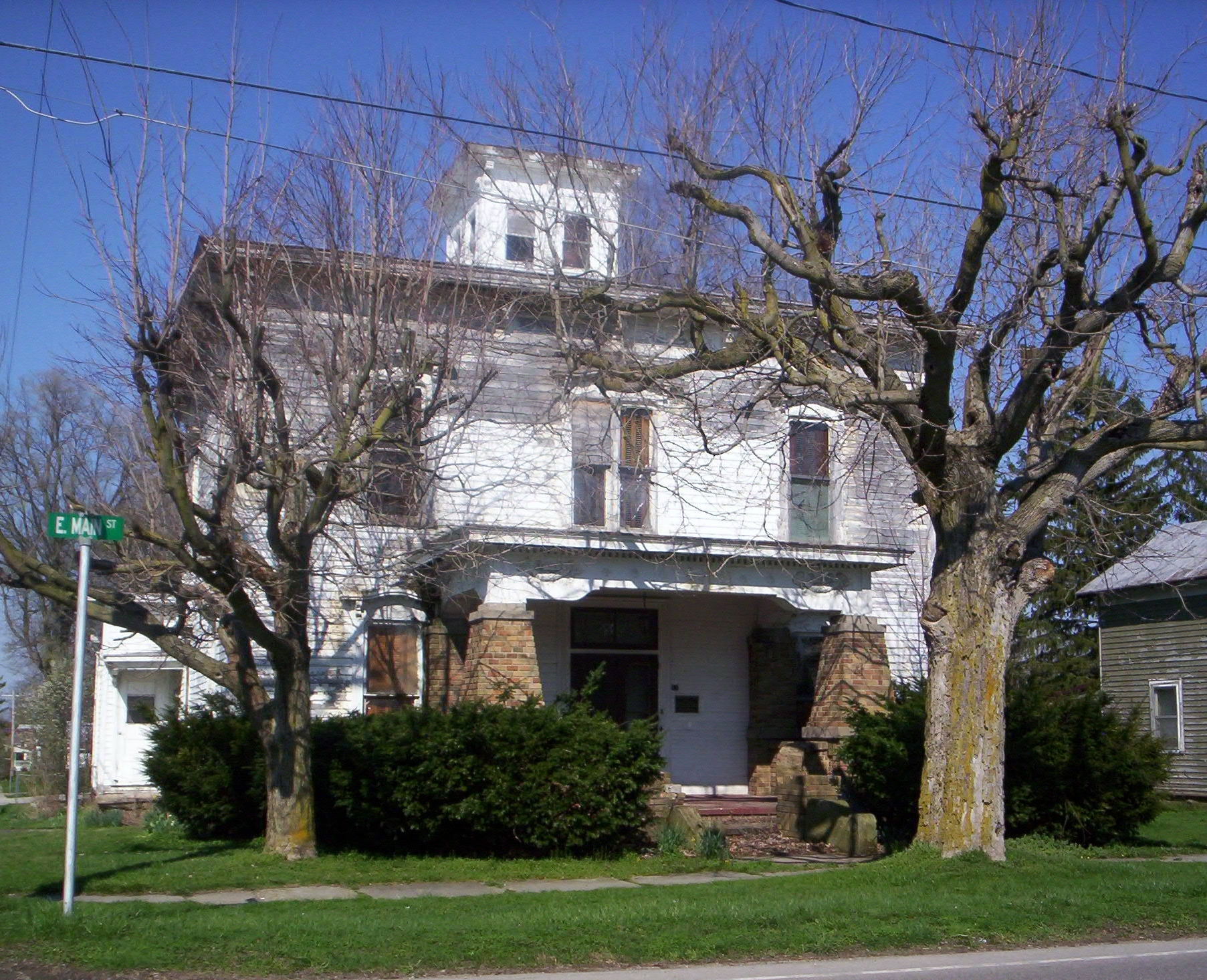 Silas Ferrell House in Shiloh, Ohio in Richland County, Ohio was listed on the National Register of Historic Places on December 14, 1987.